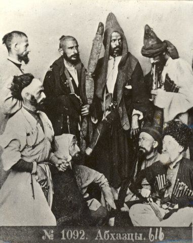 Abkhazians in 1870